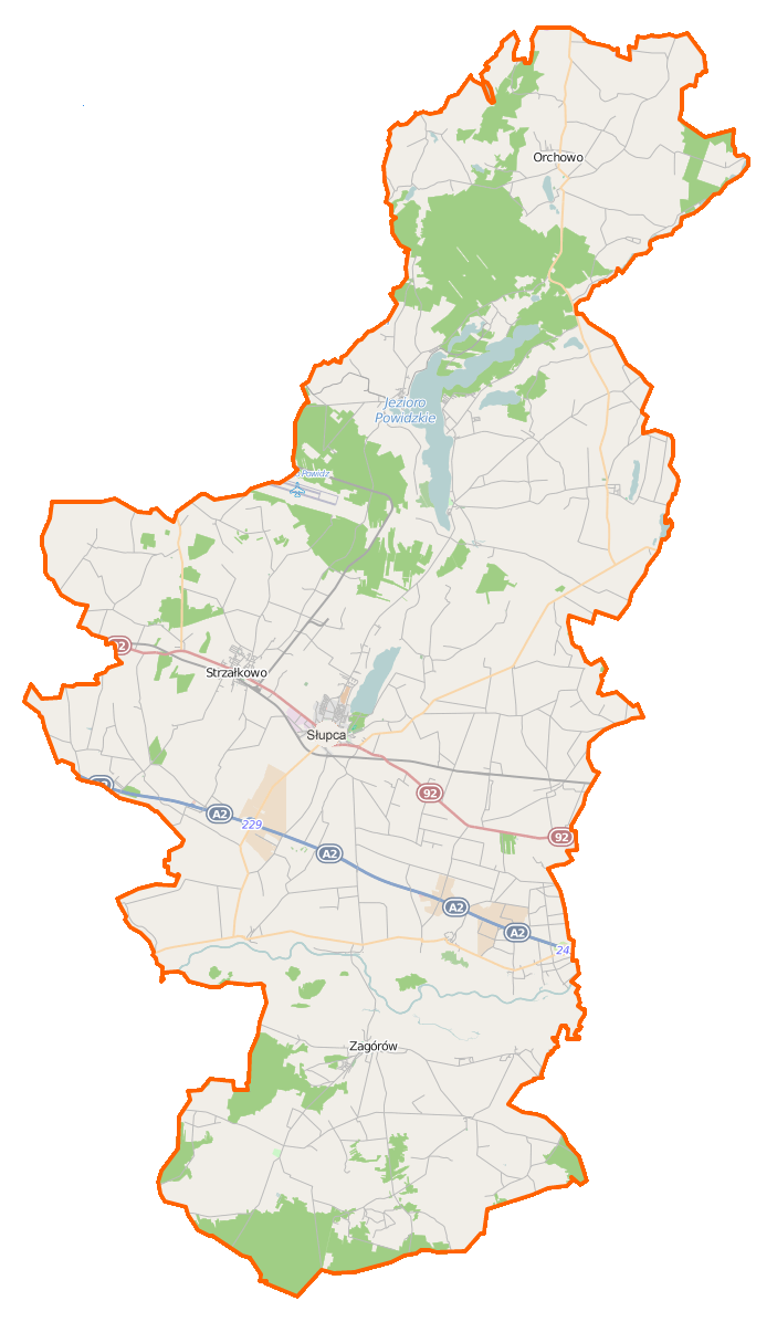 Map of Powiat słupecki, Poland This map of Powiat słupecki was created from OpenStreetMap project data, collected by the community. This map may be incomplete, and may contain errors. Don't rely solely on it for navigation. Border coordinates52.565517.6688←↕→18.150852.0639